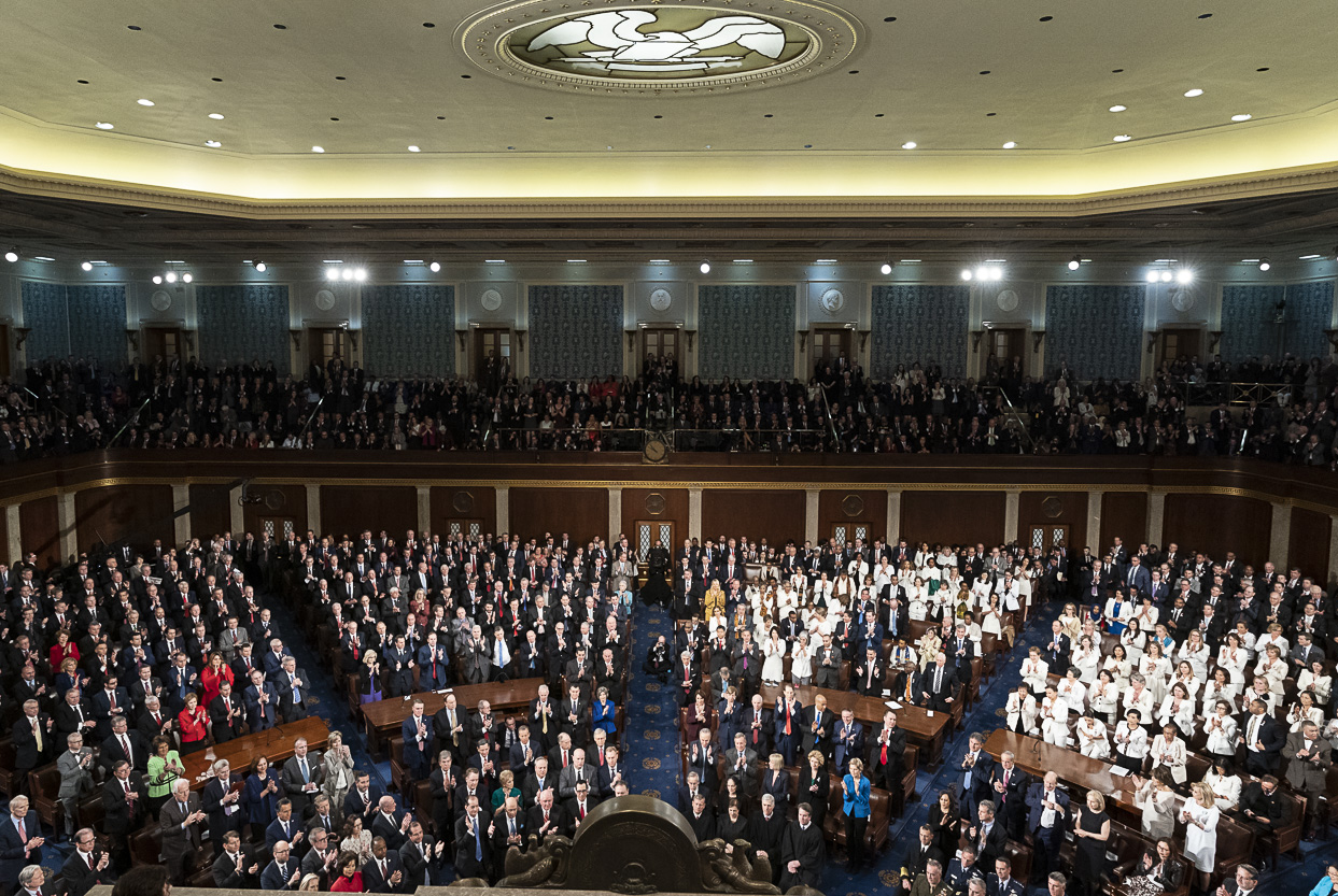 President Donald J. Trump delivers his State of the Union address at the U.S. Capitol, Tuesday, Feb. 5, 2019, in Washington, D.C. (Official White House Photo by Andrea Hanks)